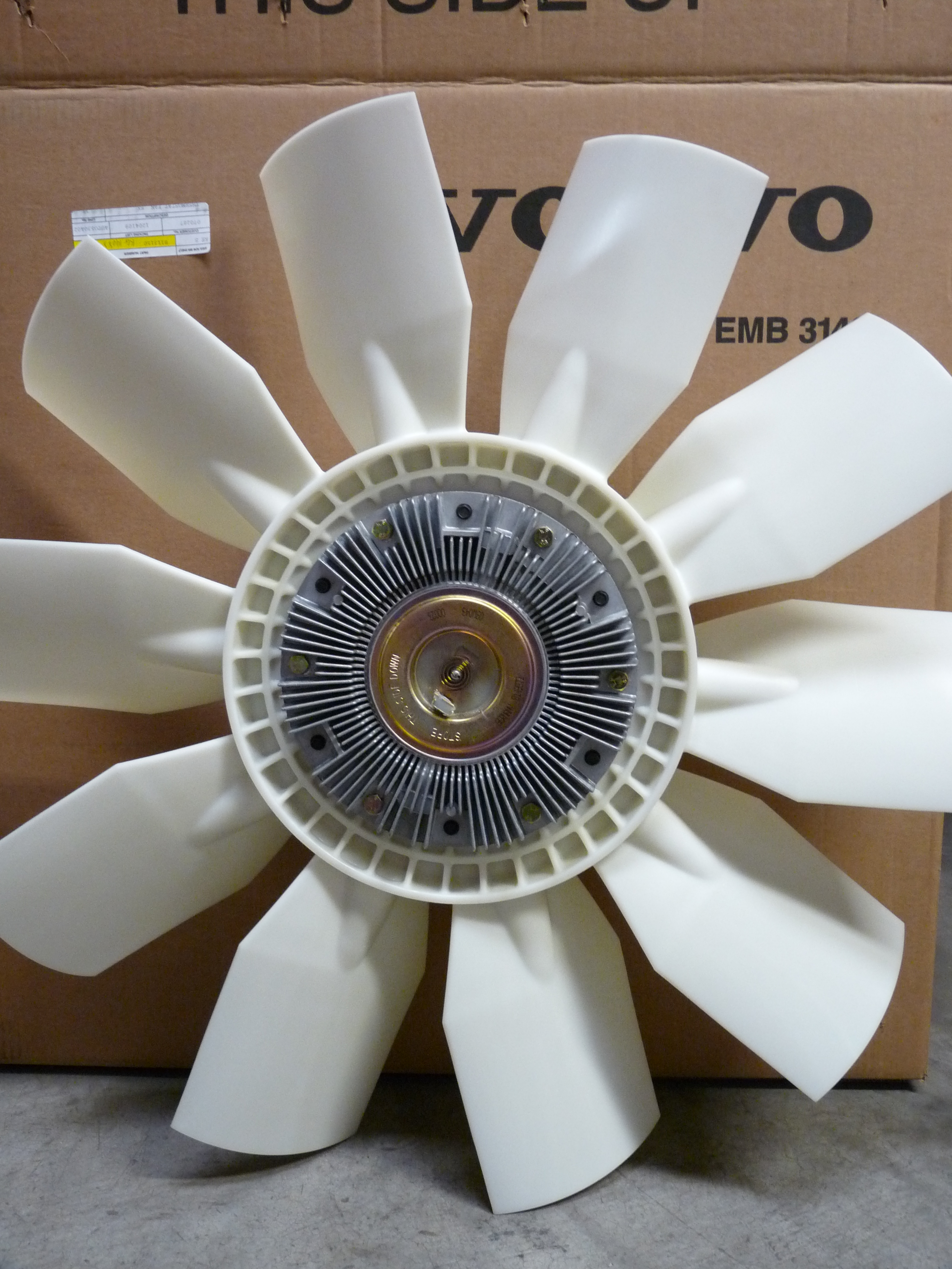 Viscous truck engine cooling fan